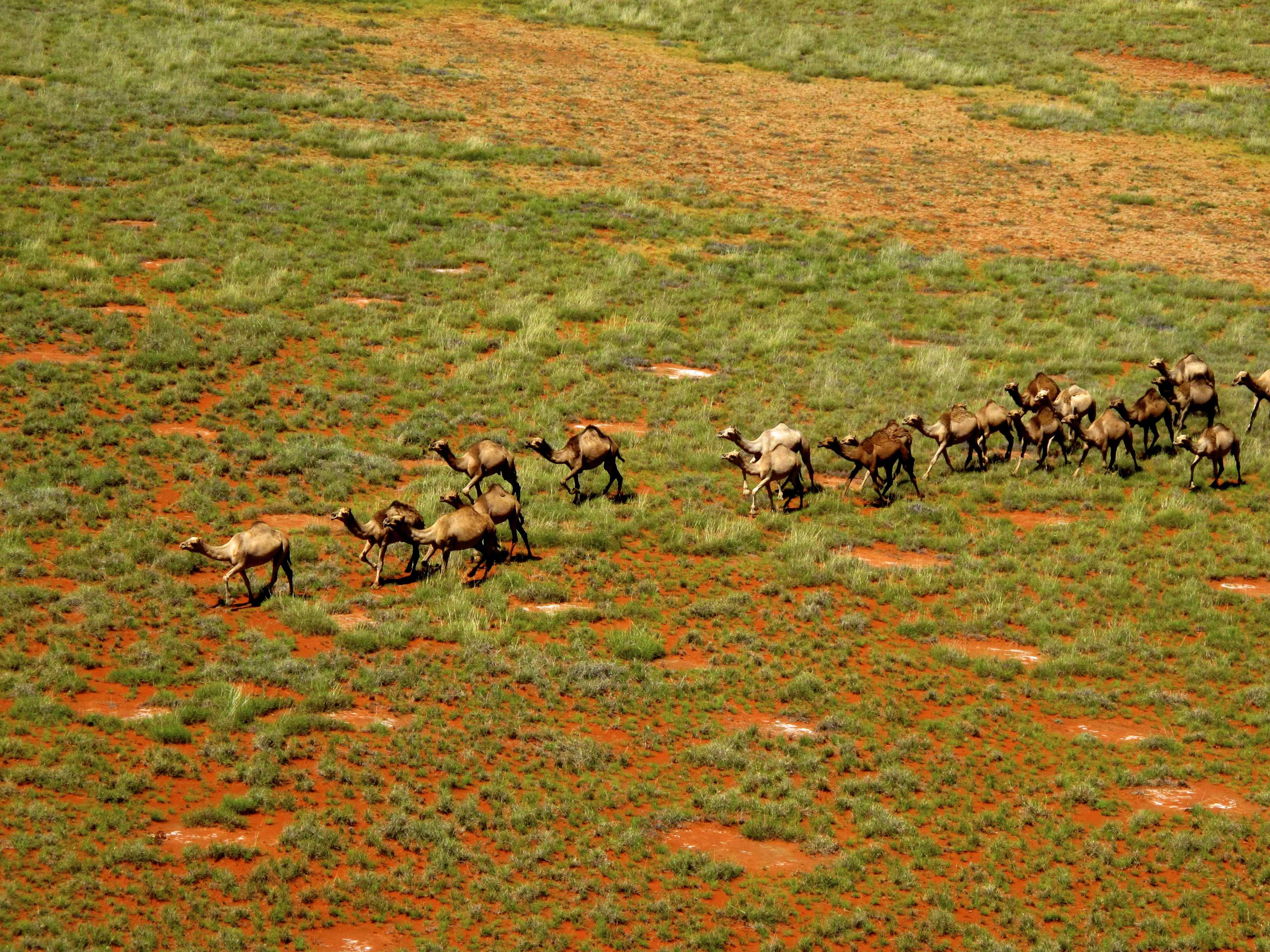 Spots and camels. By Josef Schofield/AWC 2010